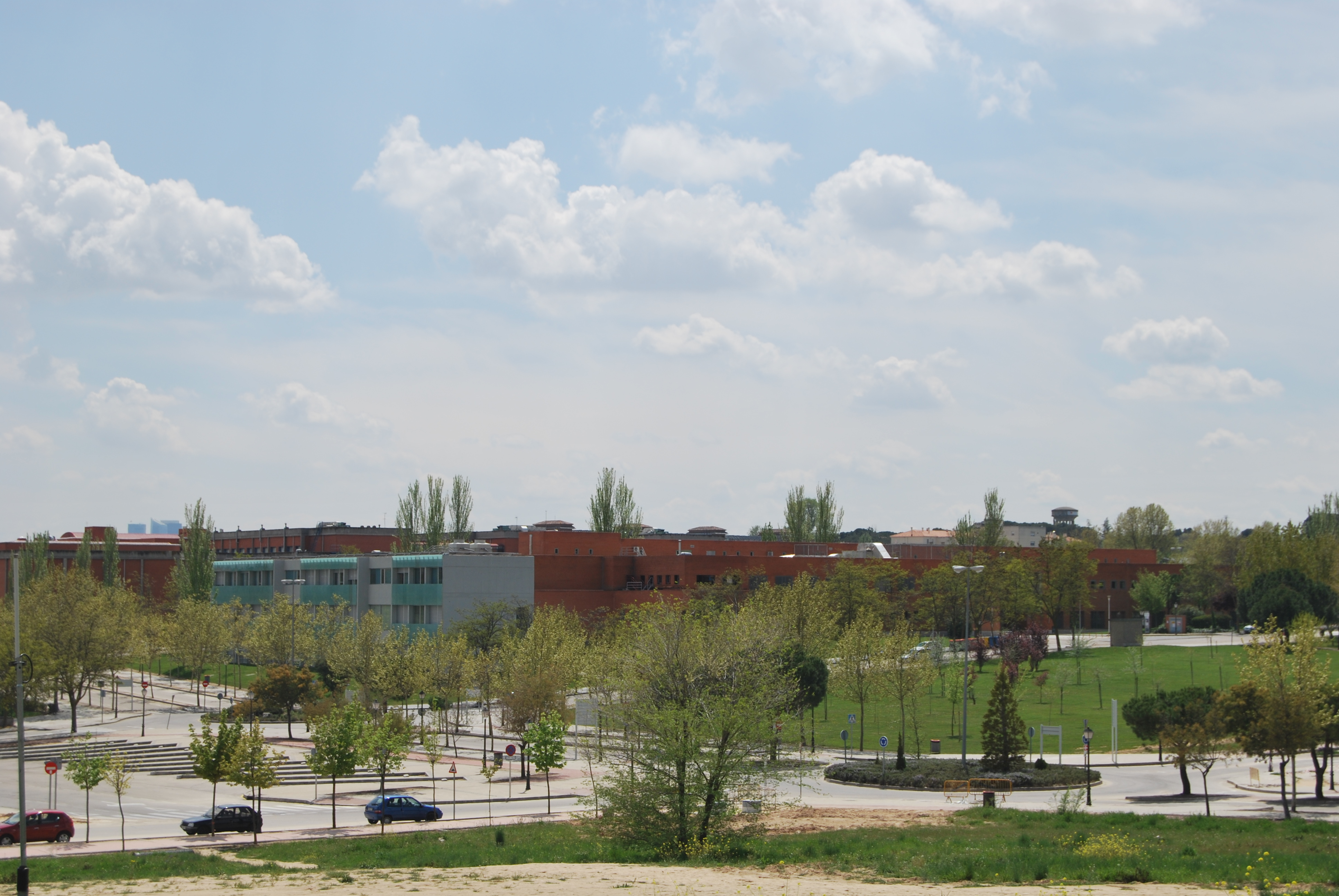 Autonomous University of Madrid campus